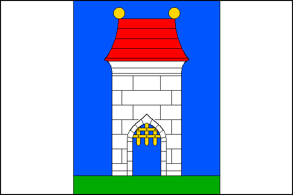 Municipal flag of Dřevohostice market town, Přerov District, Czech Republic.